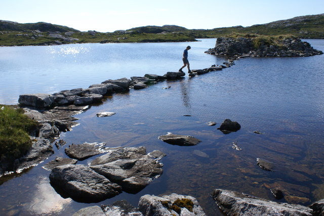 Loch an Duin The Dun in this lochan can be reached via these stepping stones